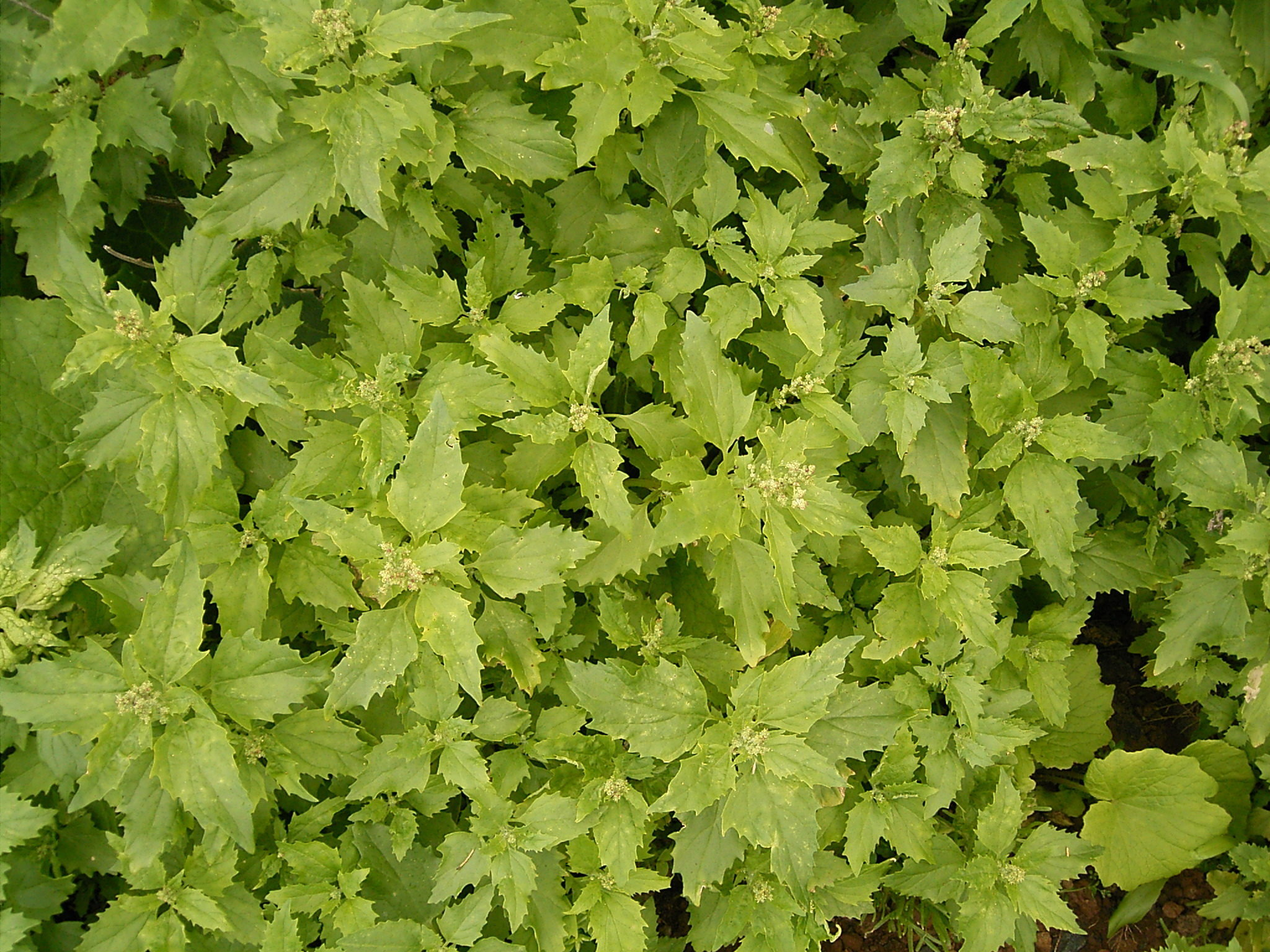 Chenopodium murale growing in La Fajana, Barlovento, La Palma, Canary Islands